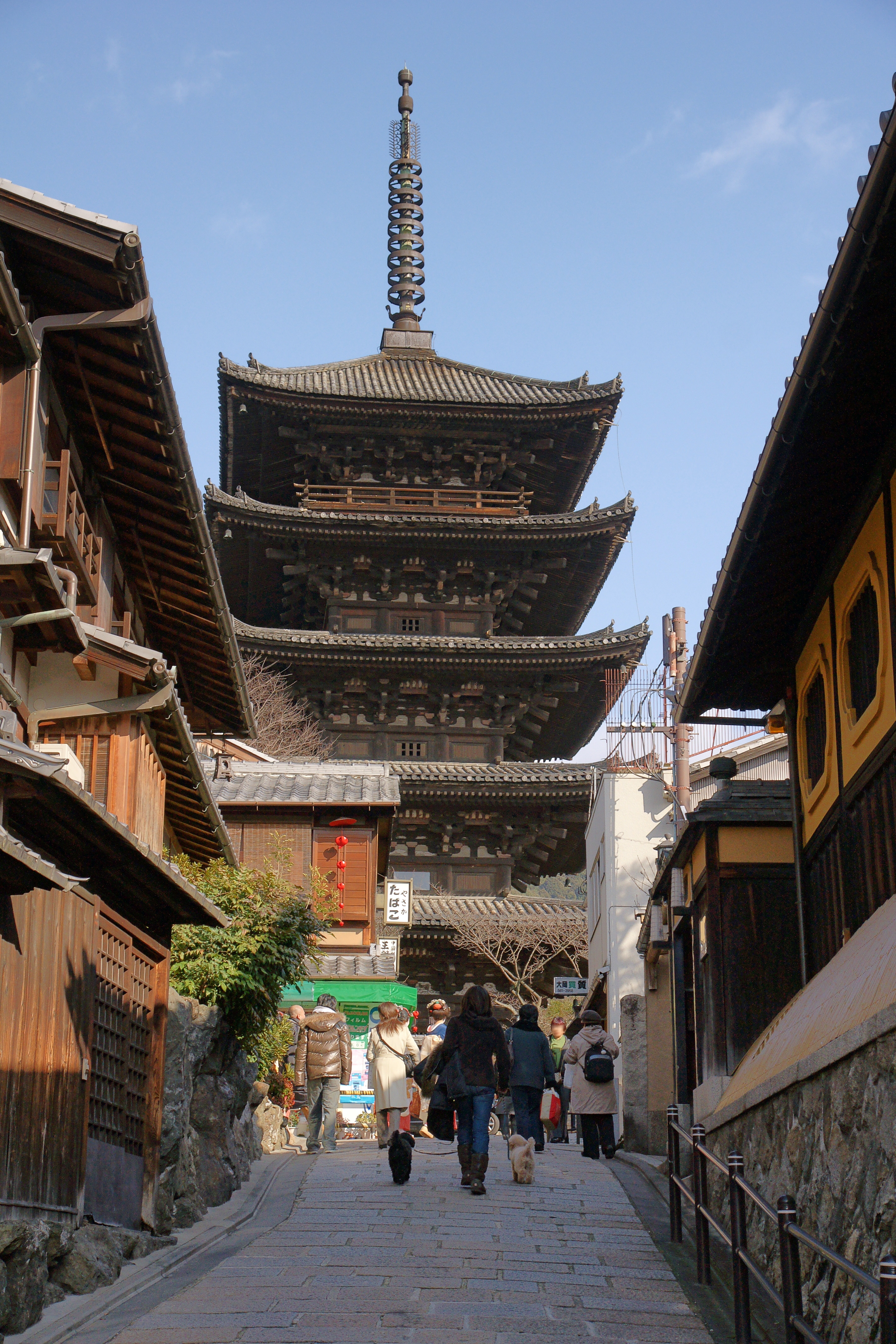 Hokanji in Higashiyama-ku, Kyoto, Kyoto Prefecture, Japan